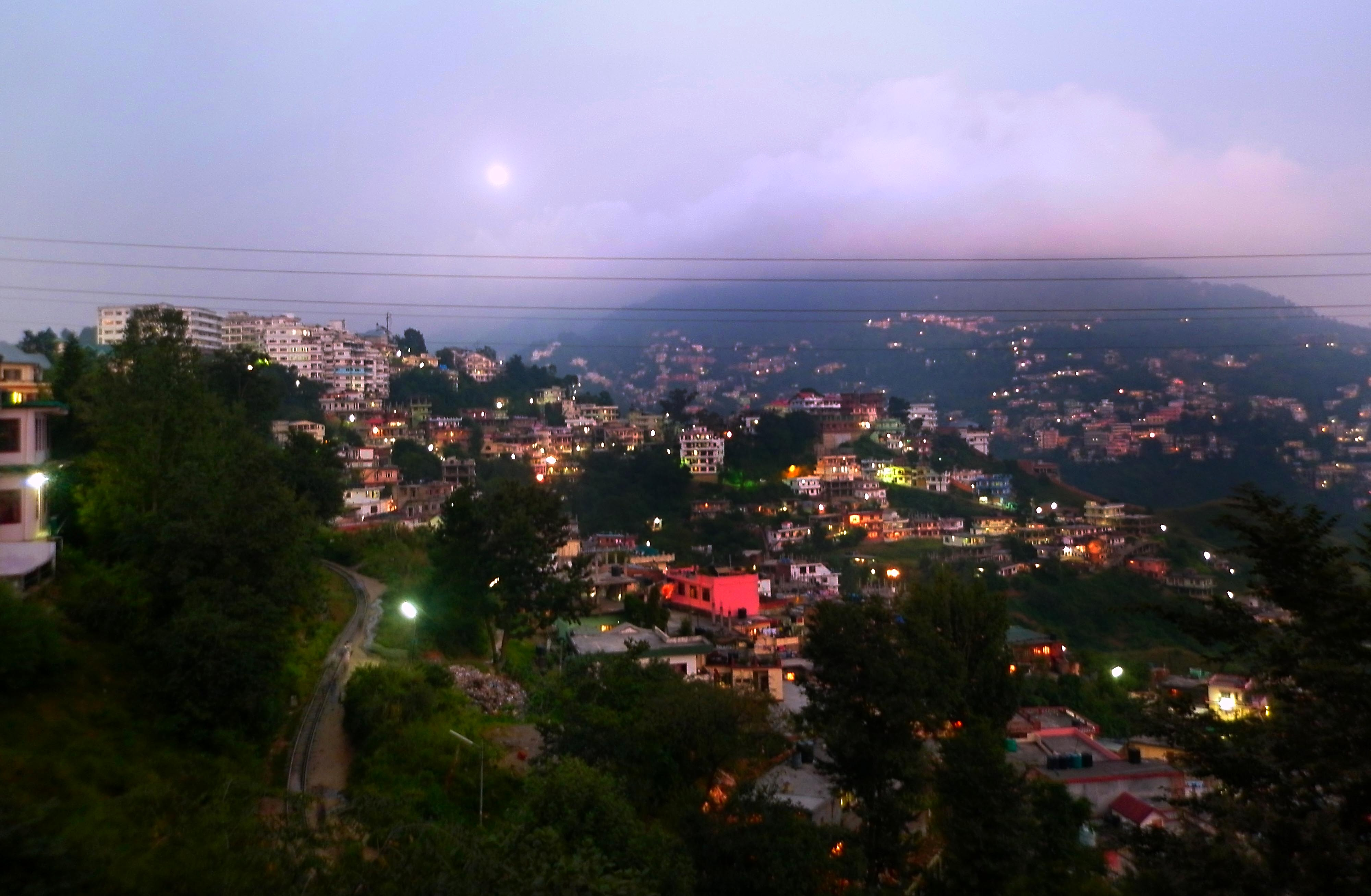 Solan city in fog